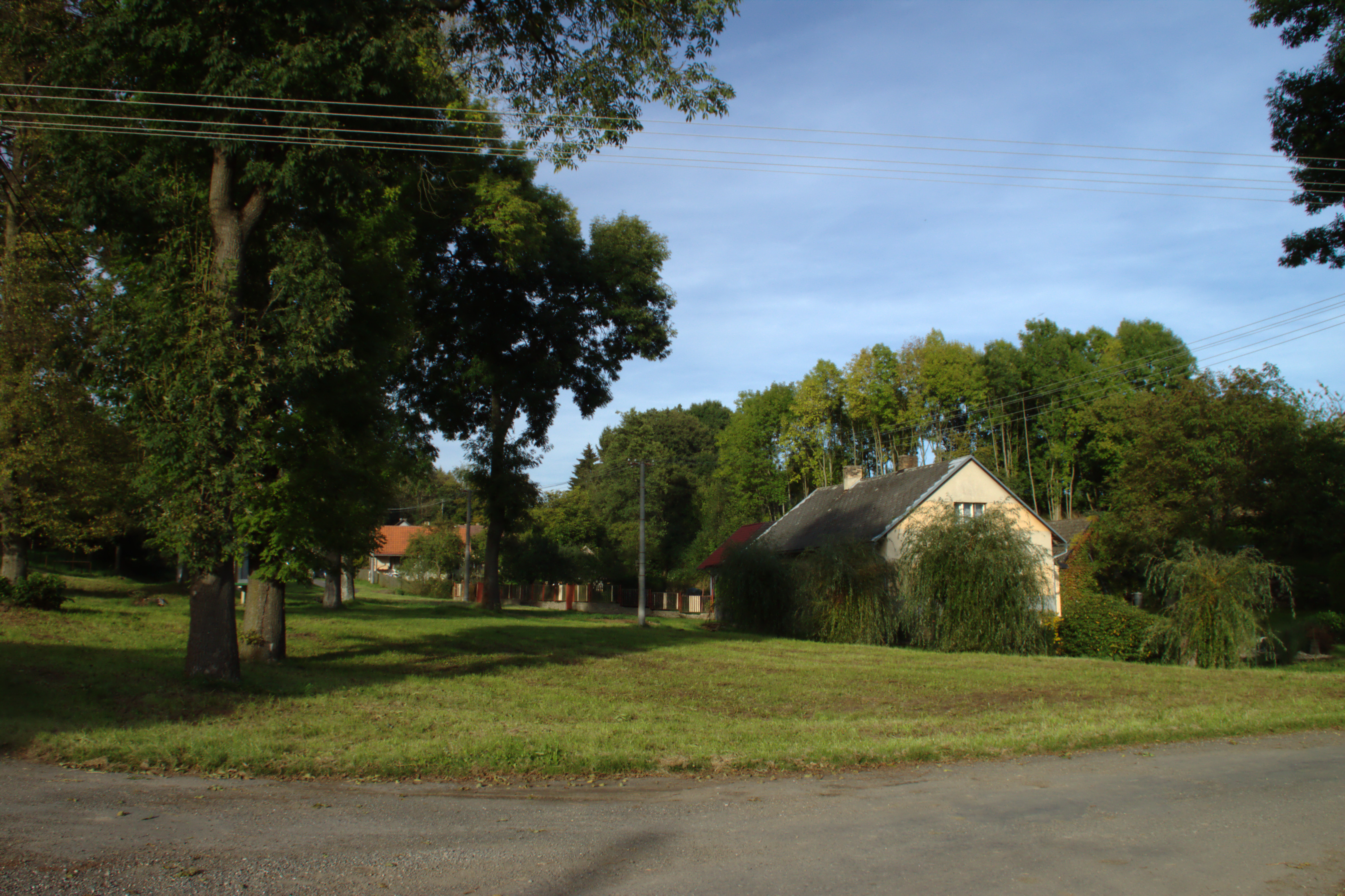 A common in the village of Milotice, Central Bohemia